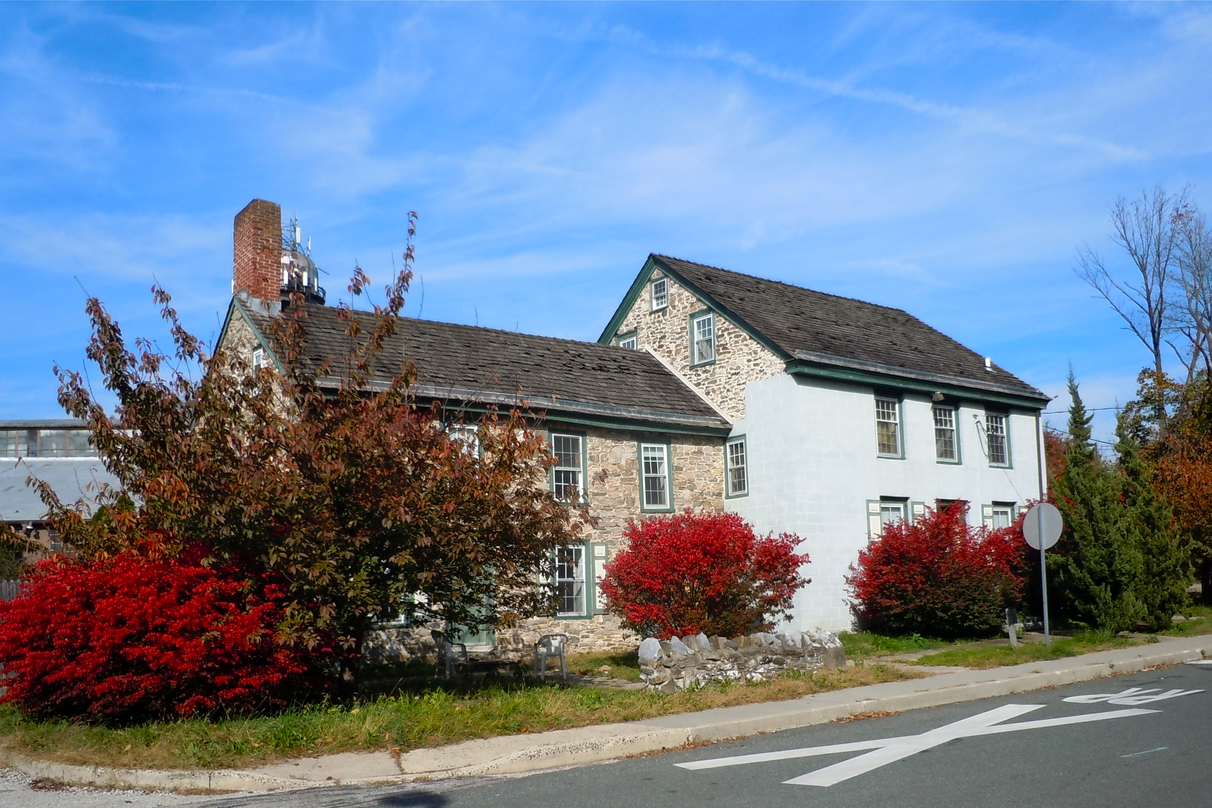 Miller's House at Spring Mill on the NRHP since January 4, 1990. At North Lane and Hector Street, Whitemarsh Township, Montgomery County, Pennsylvania. Note that three NRHP sites are located near the same corner, but this is down by the river, near the RR tracks. Also note that since the NRHP listing (apparently), the front wall of the larger building has been replaced by cinder block.